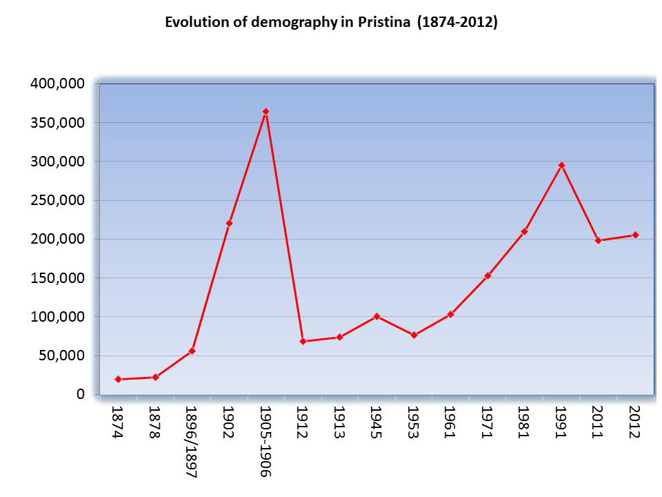 Pristina's population (1874-2012).